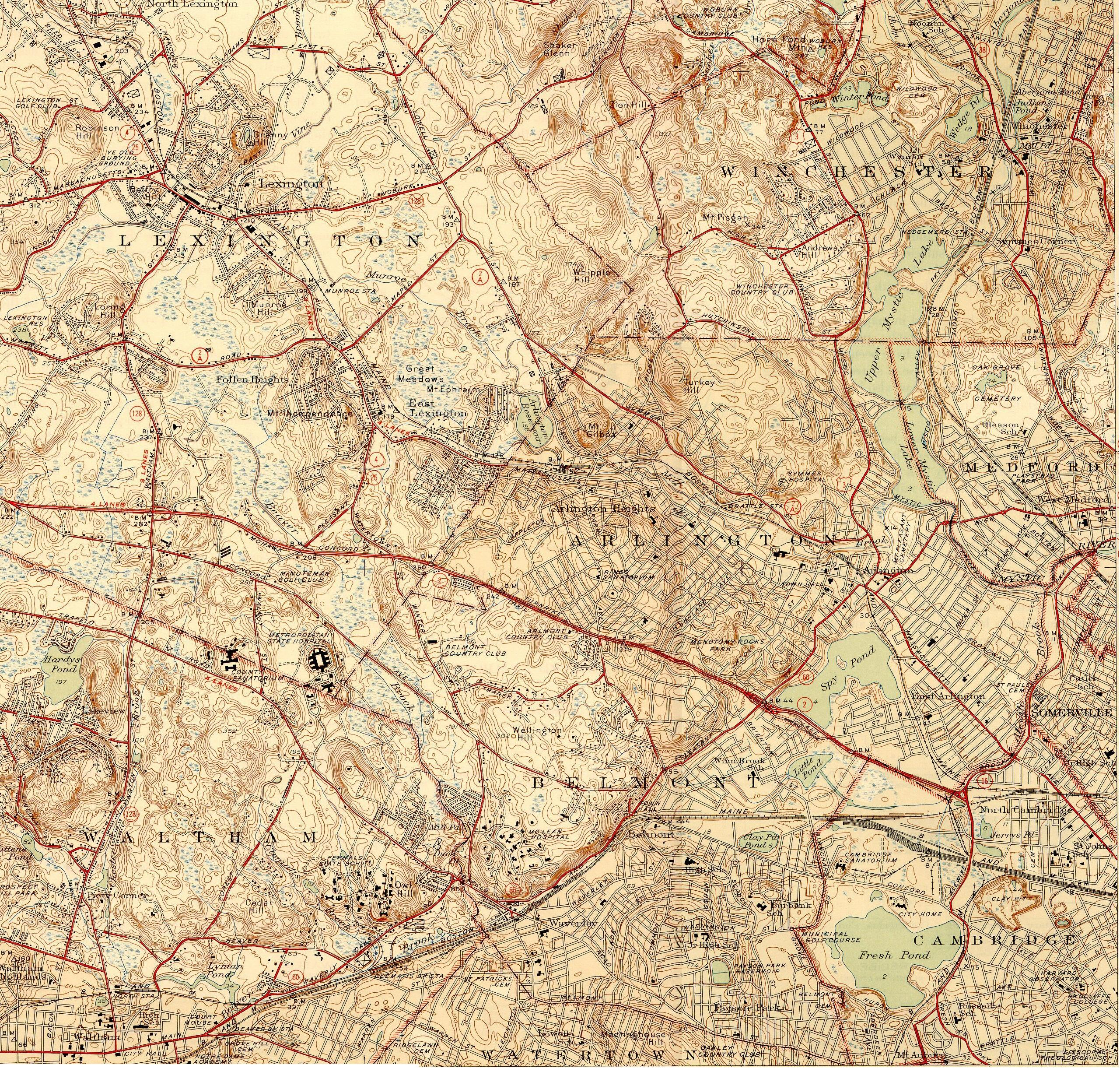 Topographic maps of Arlington, Belmont, and Lexington, Massachusetts, as of 1946. Also includes much of Winchester.